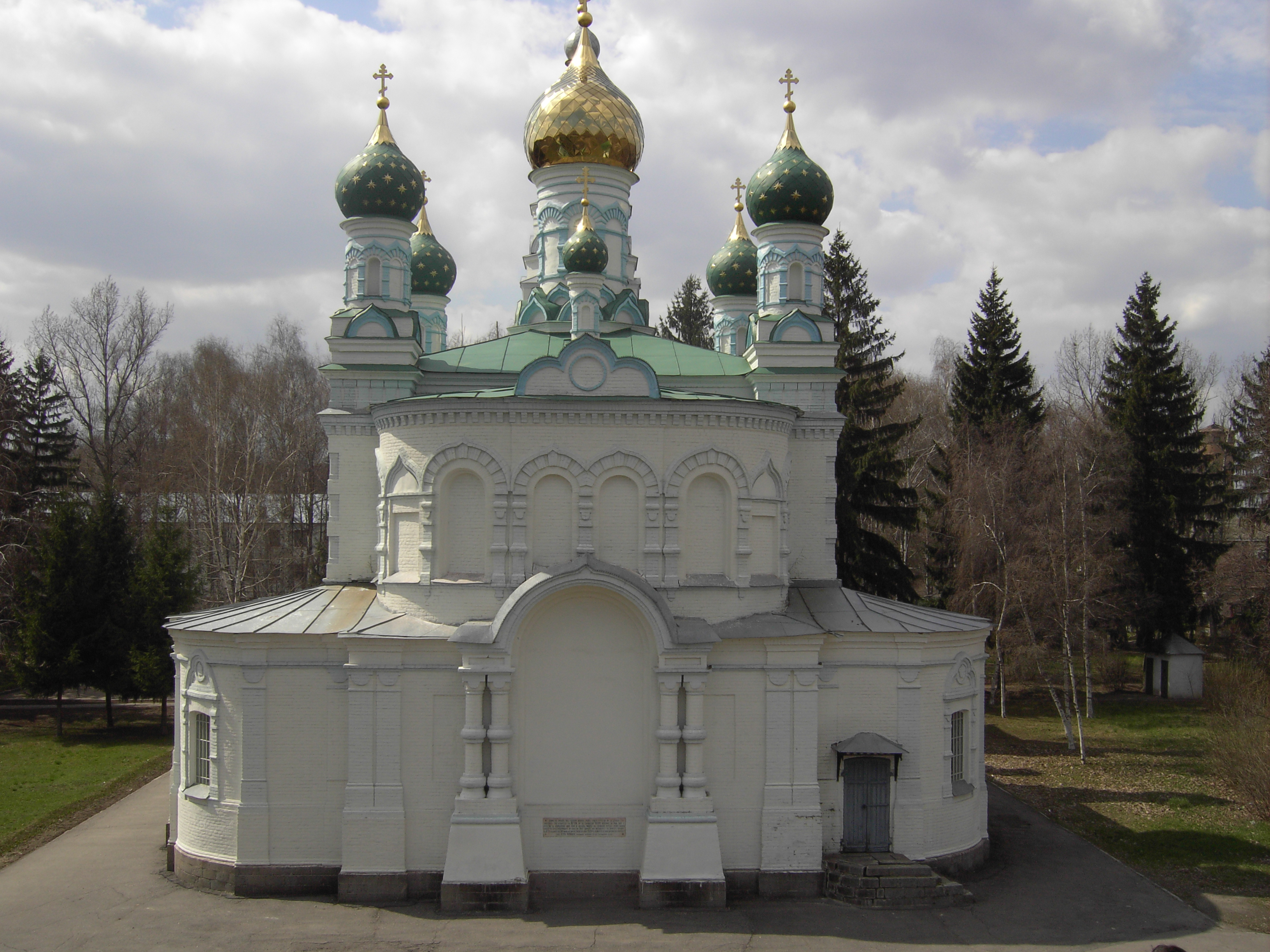 Orthodox Church on the Battelfield of Poltava (1709) as Memorial